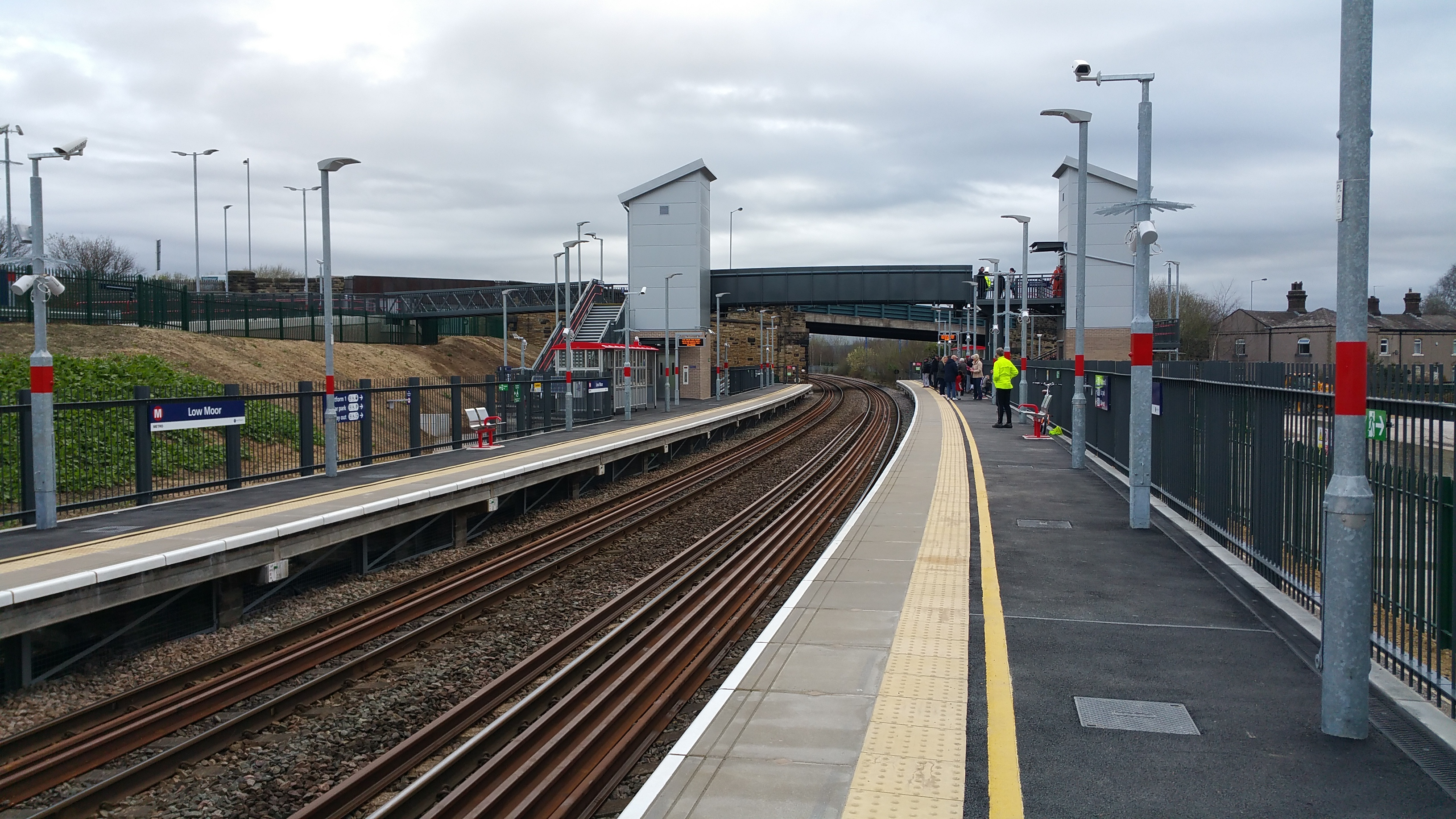 Low Moor railway station on the morning it re-opened, Sunday 2nd April 2017.